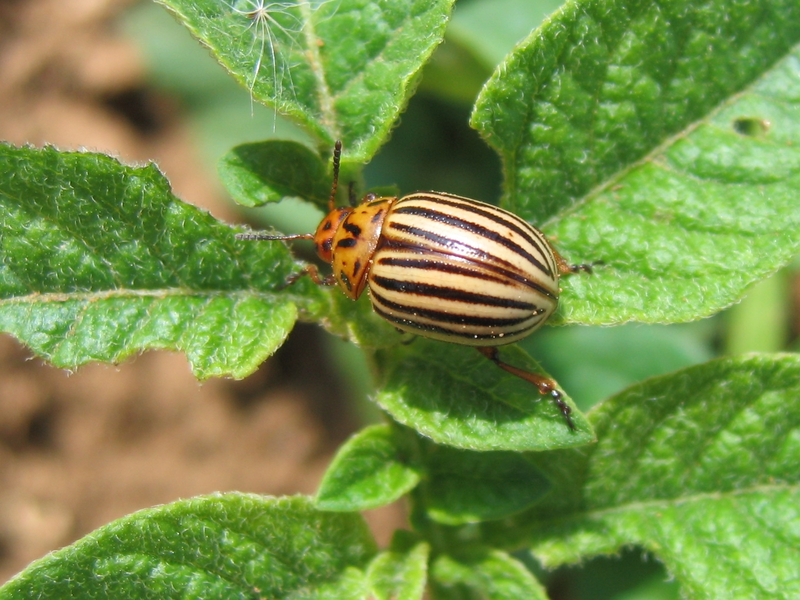 Doryphore